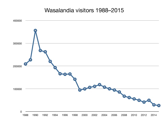 Annual visitor numbers of Wasalandia amusement park in Vaasa, Finland, operated from 1988 until 2015. Data until 2007 taken from a table that this chart replaced in fi-wiki article. Data from 2008 onwards gathered from various web sources.